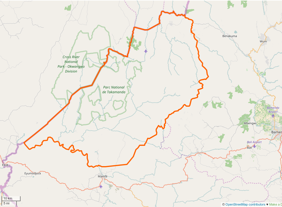 Akwaya, Cameroon ː city boundaries with OSM. This map may be incomplete, and may contain errors. Don't rely solely on it for navigation.